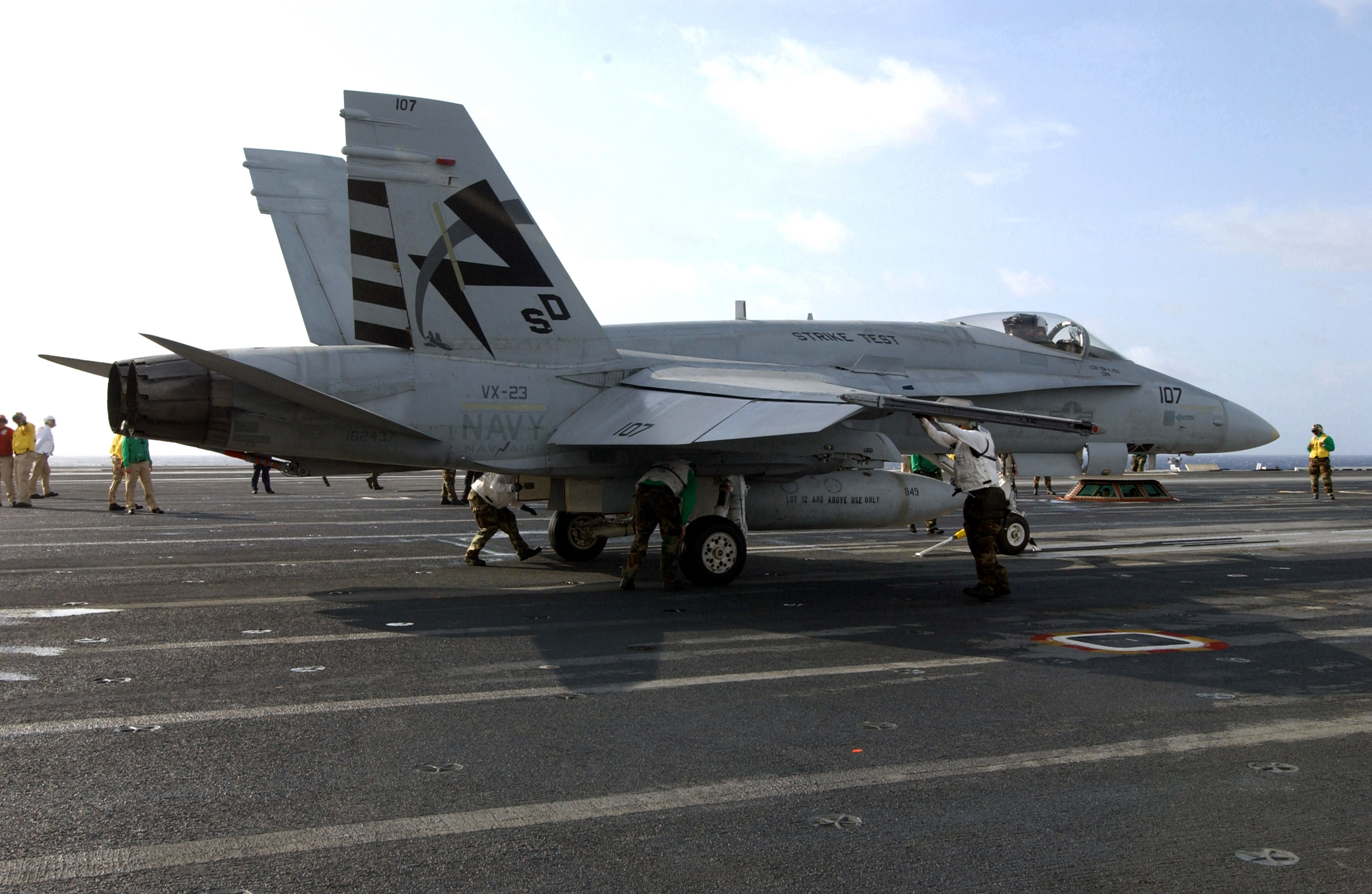 Atlantic Ocean (Jul. 24, 2003) – Mechanics assigned to the "Salty Dogs" of Air Test and Evaluation Squadron Two Three (VX-23) perform a systems check as they ready an F/A-18 Hornet for launch from the flight deck aboard the nuclear powered aircraft carrier USS Ronald Reagan (CVN 76). Ronald Reagan is conducting sustained flight deck operations during the ship’s initial flight deck certification off the coast of Virginia. U.S. Navy photo by Photographer's Mate 3rd Class LaMon Bradford. (RELEASED)